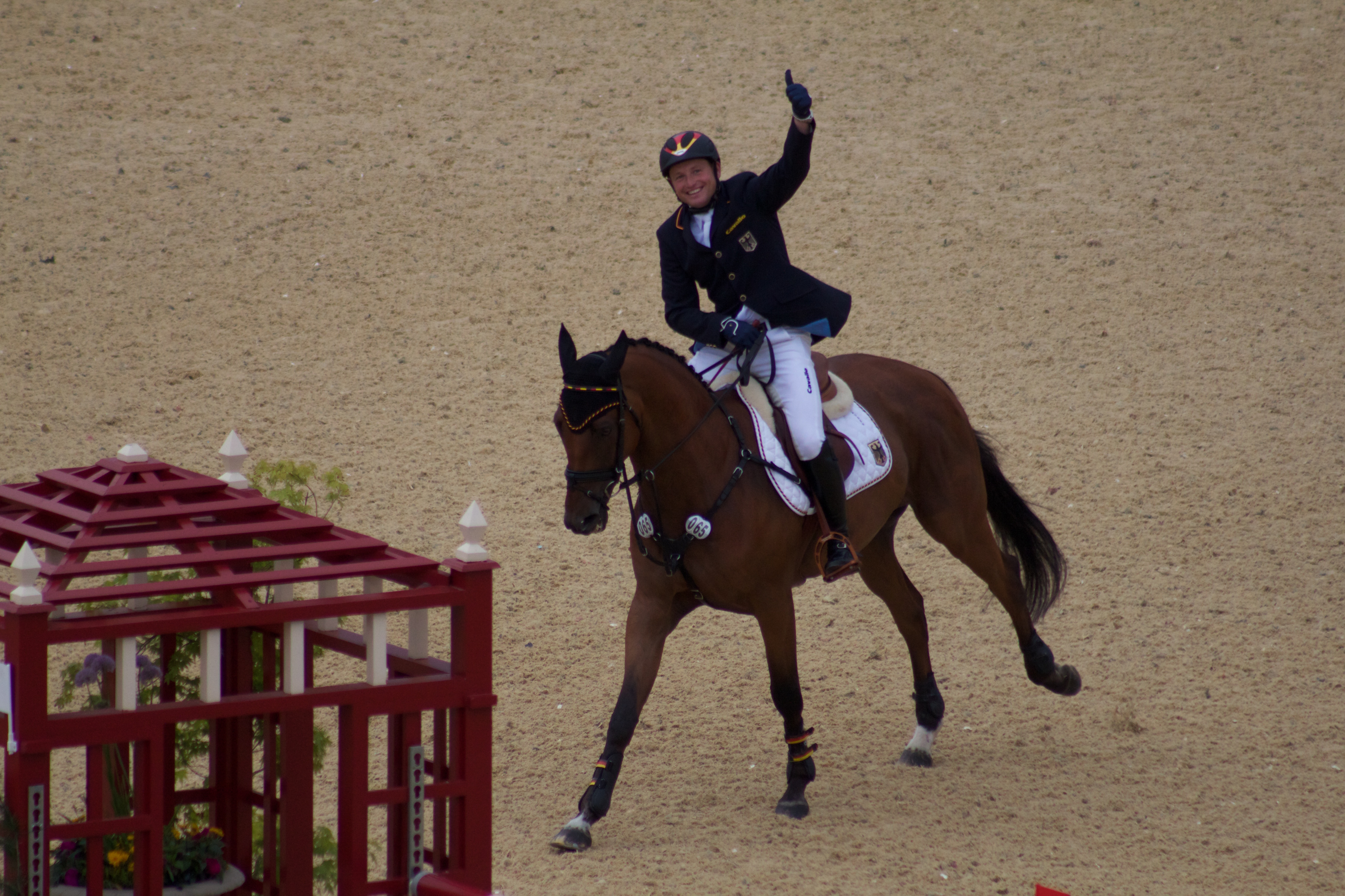 Equestrian sports at the 2012 Summer Olympics: Michael Jung riding Sam